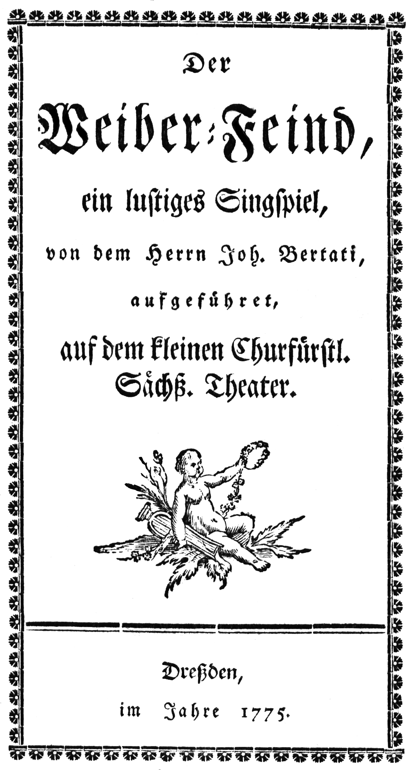 Baldassare Galuppi - L'inimico delle donne - german title page of the libretto - Dresden 1775